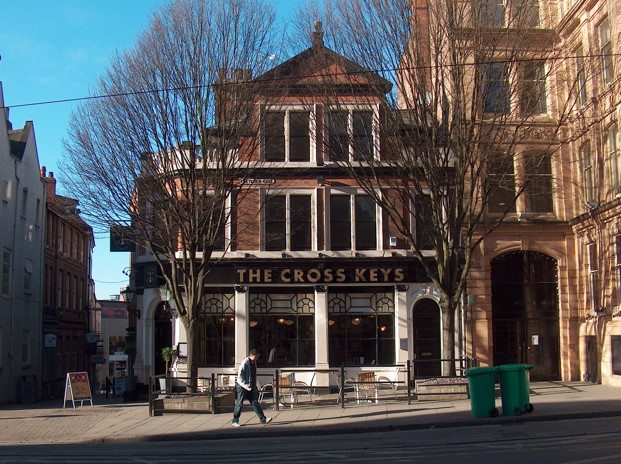 "The Cross Keys", Fletchergate, Nottingham